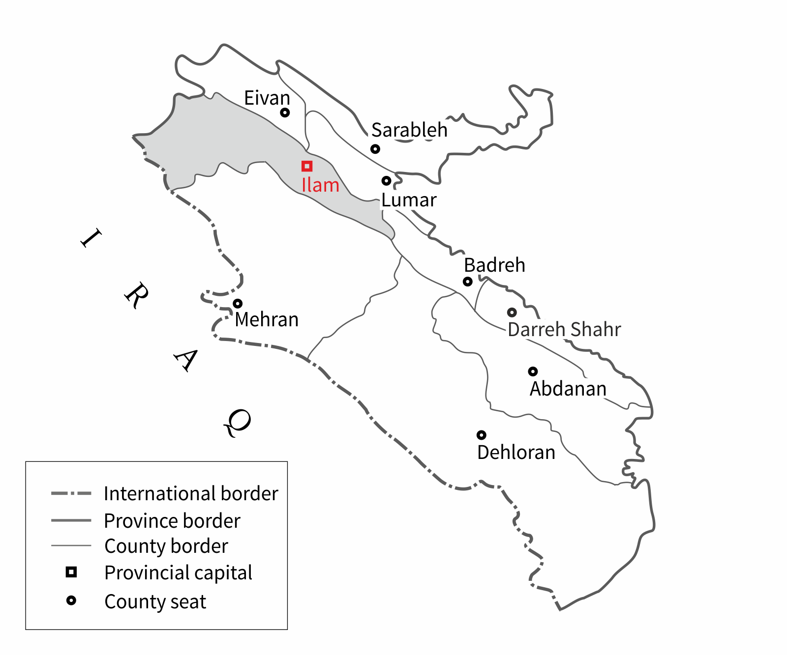 The map shows the location of Ilam city and Ilam county in the Ilam province.